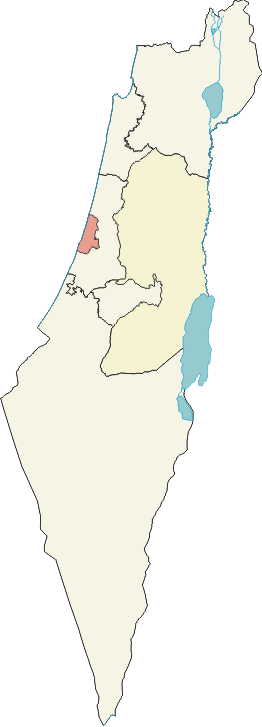 en: Map of Tel Aviv District within Israel.